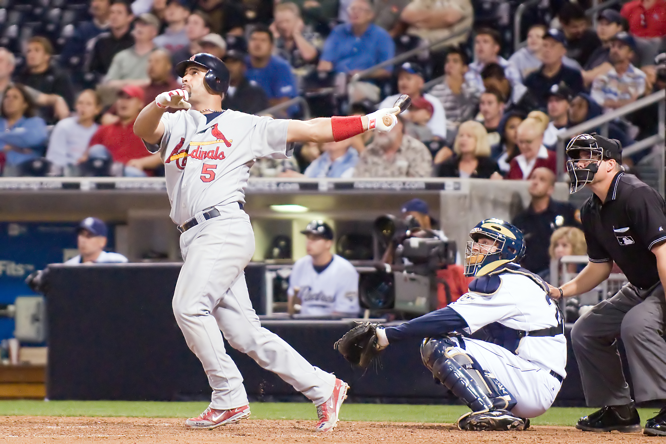 Albert Pujols watches his home run against San Diego Padres at Petco Park. ; move approved by Pymouss44